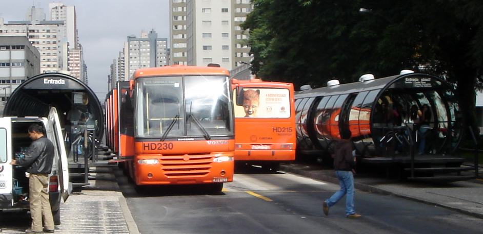 Two biarticulated buses loading/picking passengers at Praça Eurfásio Correia tube bus stop in front of Shopping Estação, at Ave. 7 de setembro (South trunk line), RIT Curitiba, Brazil. The buses are Marcopolo Torino Biarticulado buses (#HD230, #HD215) with Volvo B10M Biarticulado chassis